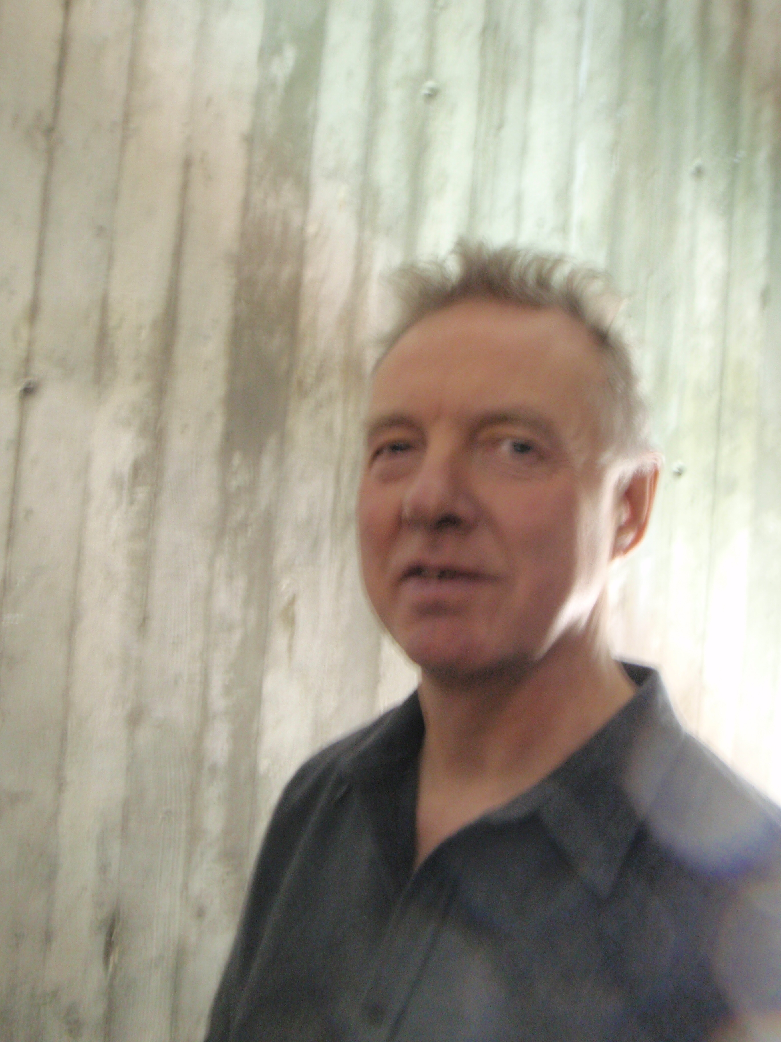 Norwegian artist (painting, graphic art, sculpture) at the opening of retrospective exhibition i Bergen Art-museum